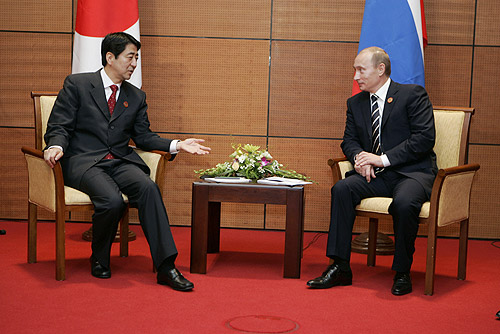 HANOI. Meeting with the Prime Minister of Japan Shinzo Abe.